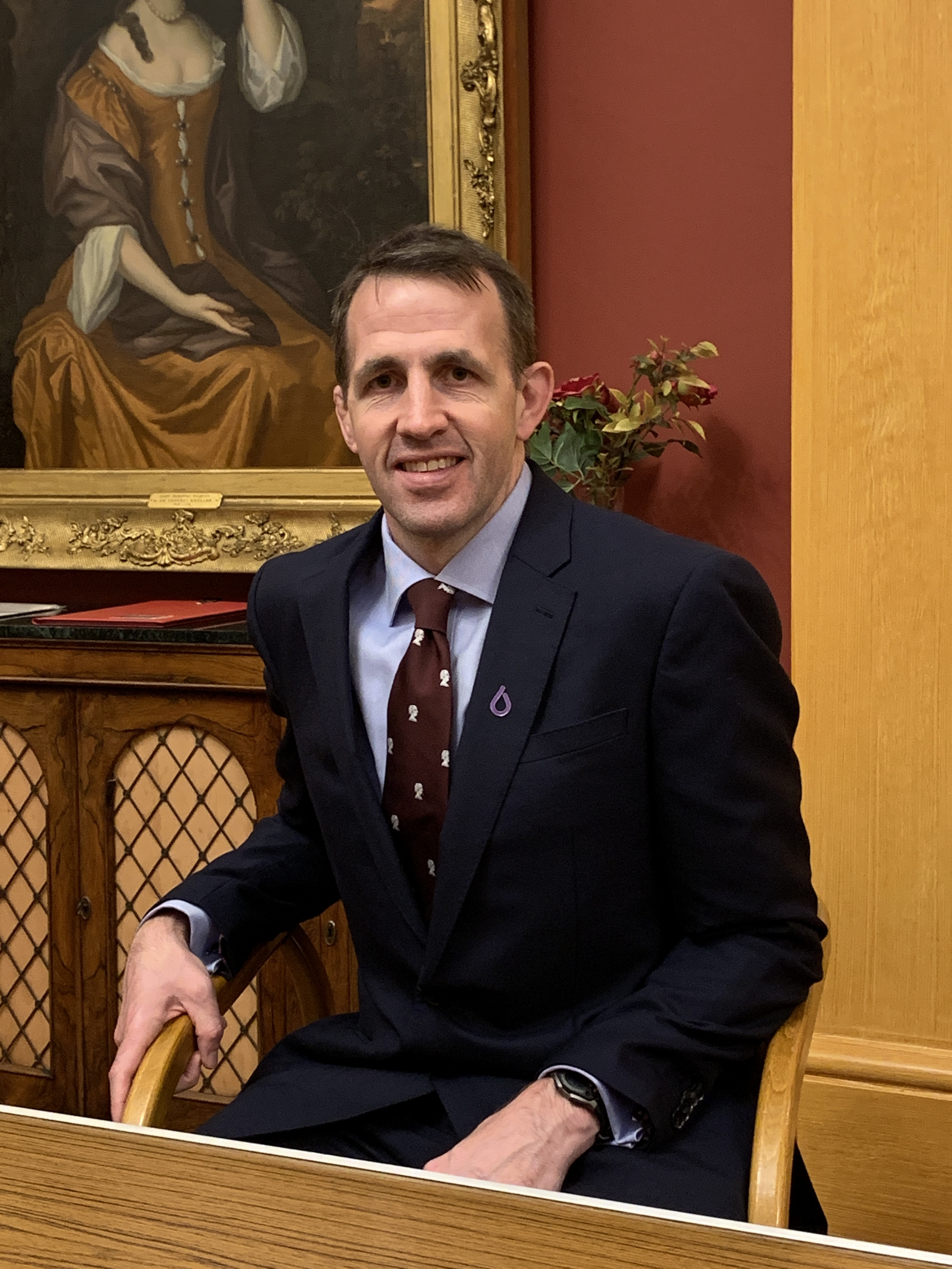 Ben Challacombe (urologist). Taken at Lettsom House, The Medical Society of London